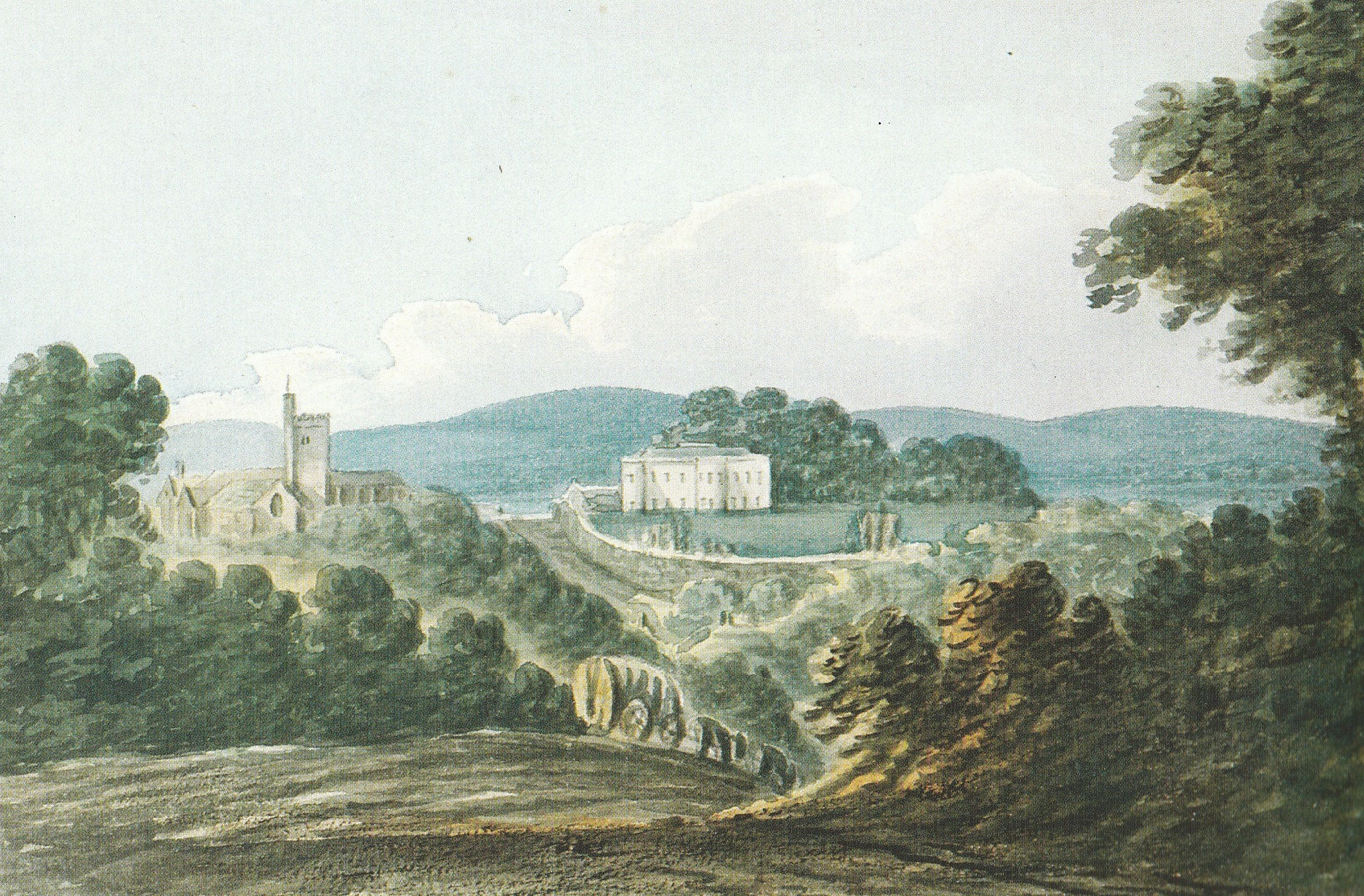 Newton House in the parish of Newton St Cyres, Devon, 1797 watercolour by Rev. John Swete (d.1821). View entitled: Newton House, seat of J. Quicke, Esq.. No date given, but Swete visited Newton St Cyres as part of his 1797 Picturesque Tour, during which he painted other houses, all dated 1797. Devon Record Office DRO 564M/F11/153